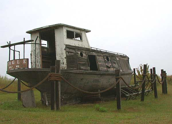 Boat in Cornucopia (taken Oct. 1, 2004) © 2004 Matthew Trump